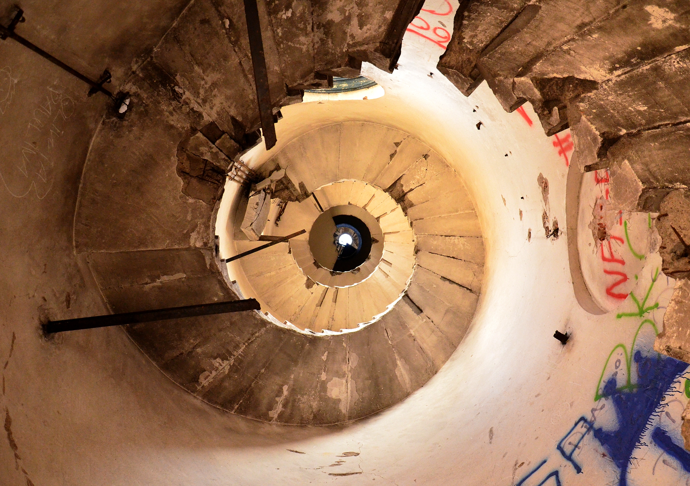 Railway water tower in Brodnica, stairway